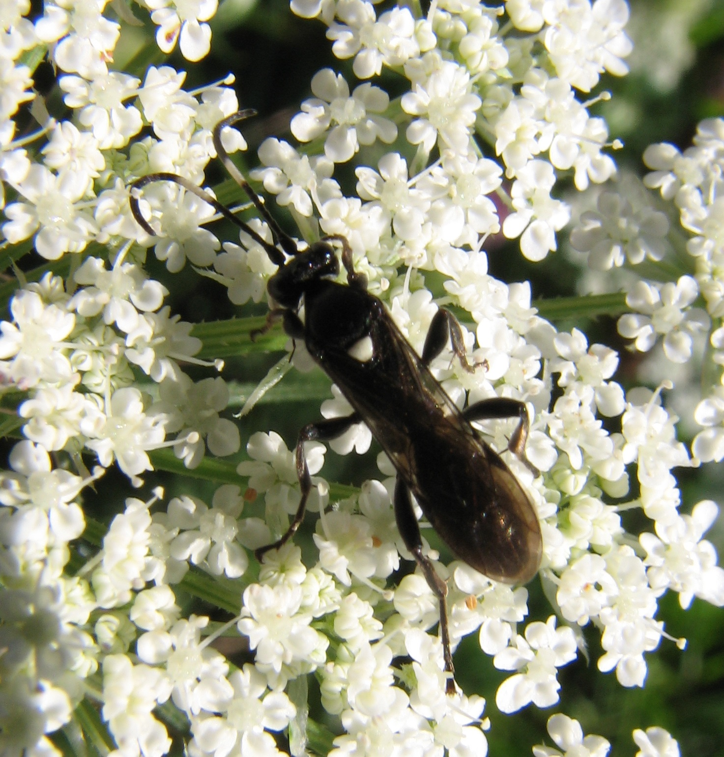 Ichneumon wasp, Vulgichneumon brevicinctor, female on queen Anne's lace. Horsham Trail, Horsham, Montgomery County, Pennsylvania, USA.